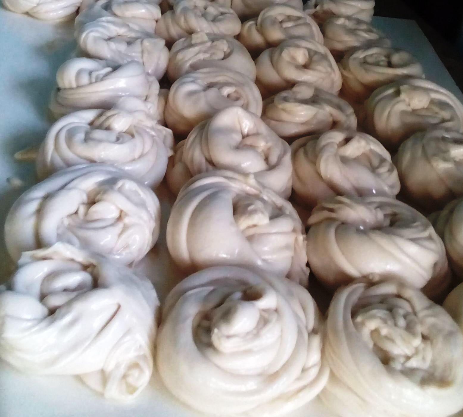 Maida is knead using egg,oil or ghee and water. The dough is beaten into thin layers and later forming a round spiraled into a ball using these thin layers.